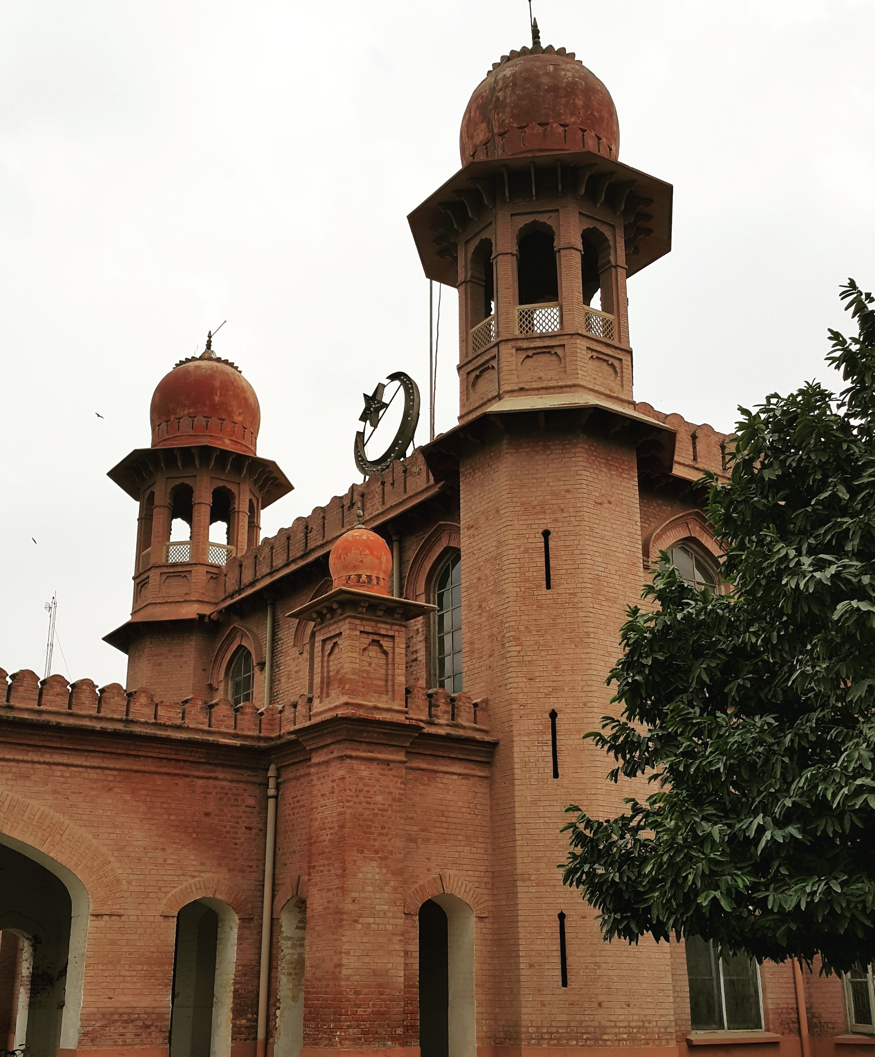 Old Science Block.